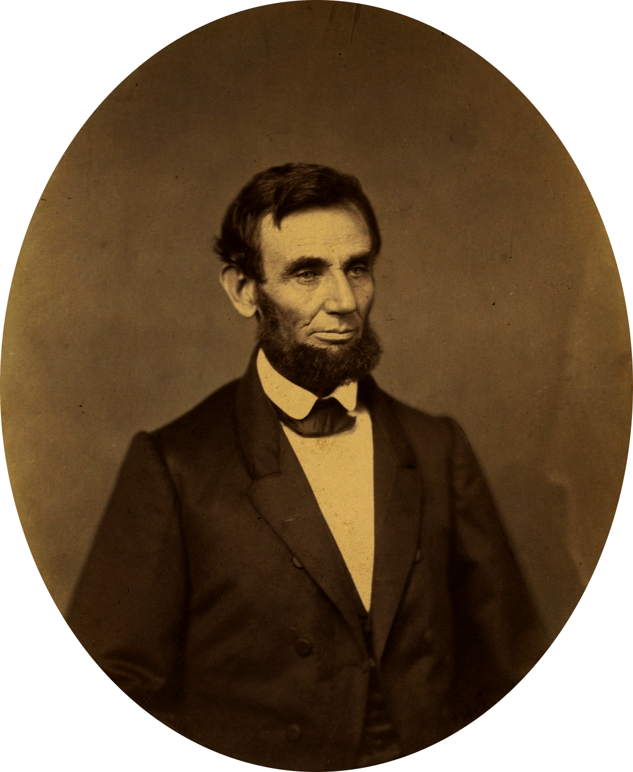 Abraham Lincoln. Salt print. Ostendorf O-55. The earliest presidential portrait of Lincoln.